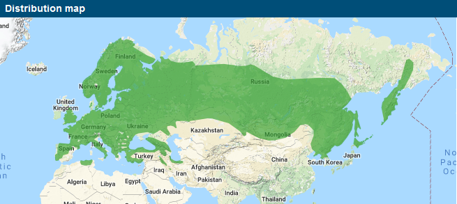 Distribution map of Lesser Spotted Woodpecker (Dryobates minor). Bird Life International